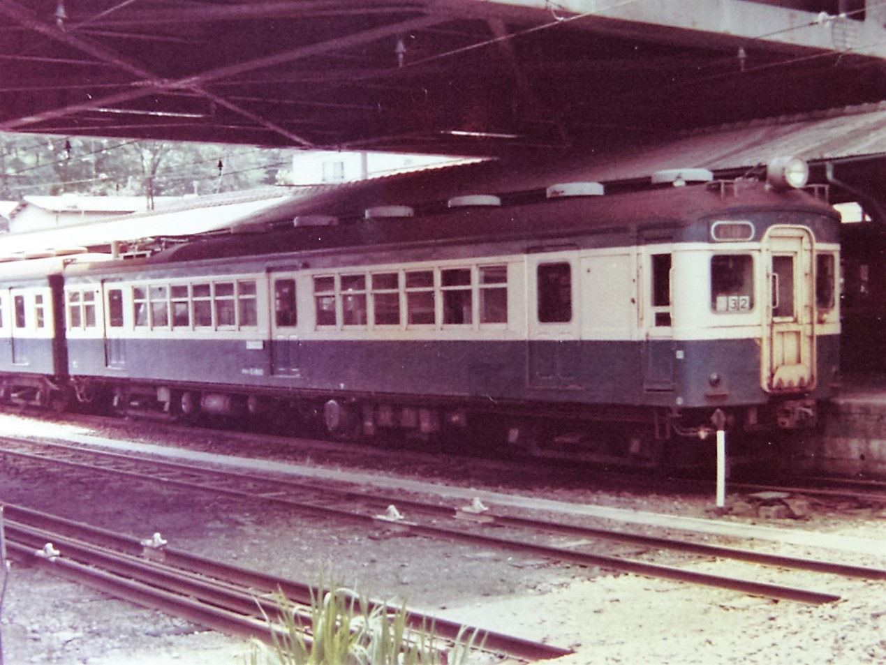 JNR EMU car KuMoHa 51810